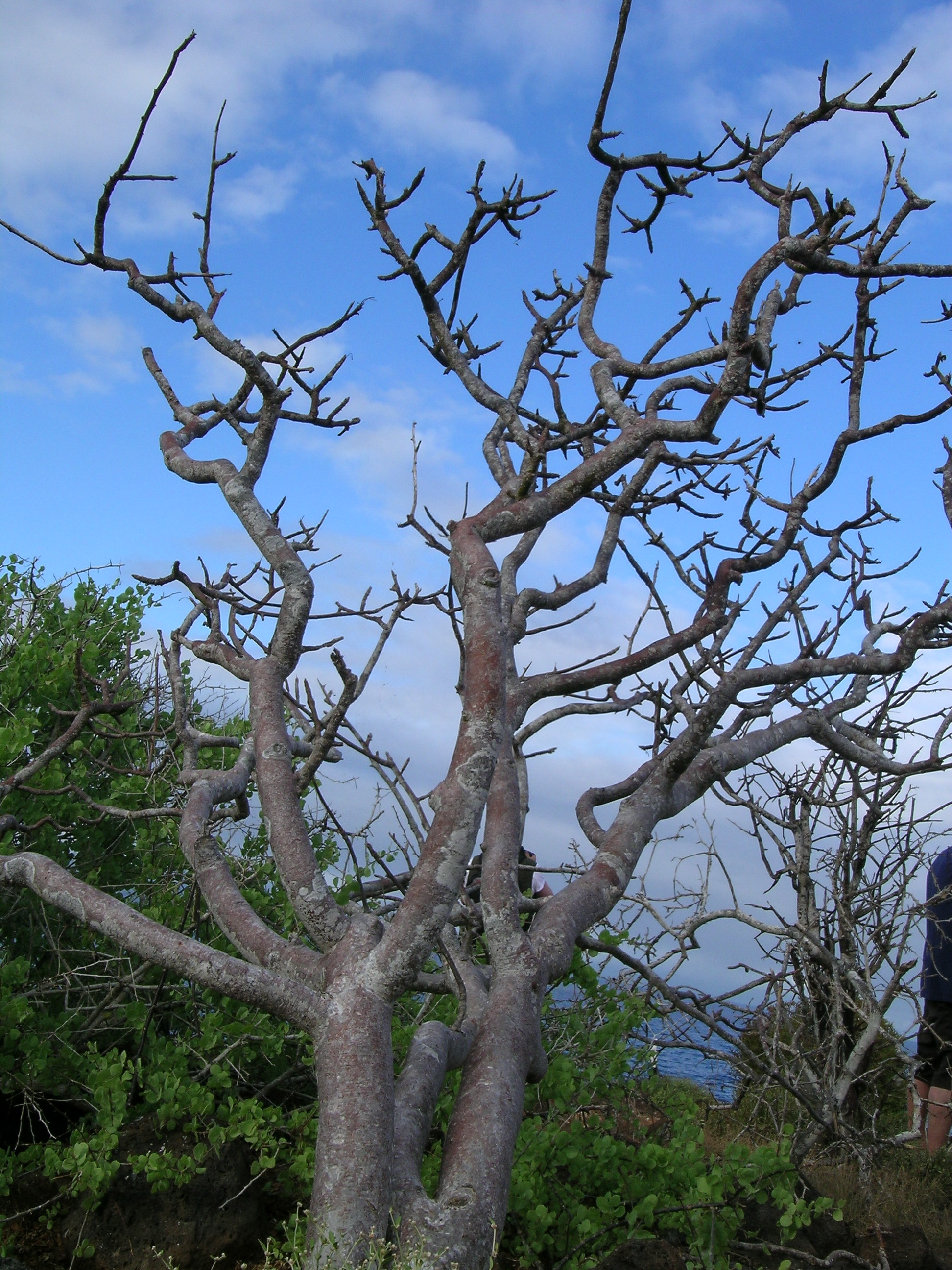 Bursera graveoleans in its leafless state